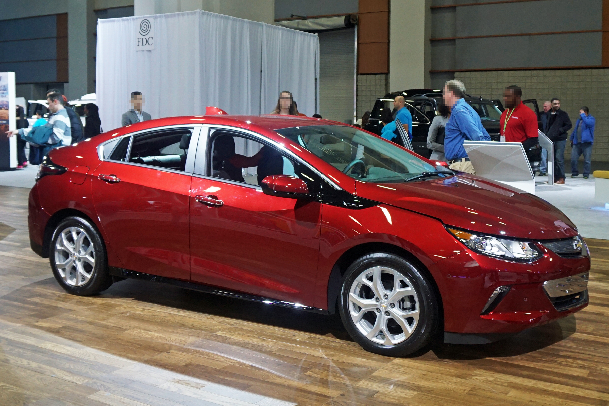 2017 Chevrolet Volt second generation at the 2017 Washington Auto Show, DC, USA.